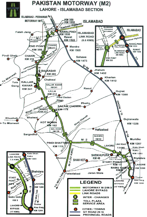 Map of Islamabad-Lahore motorway M2 section